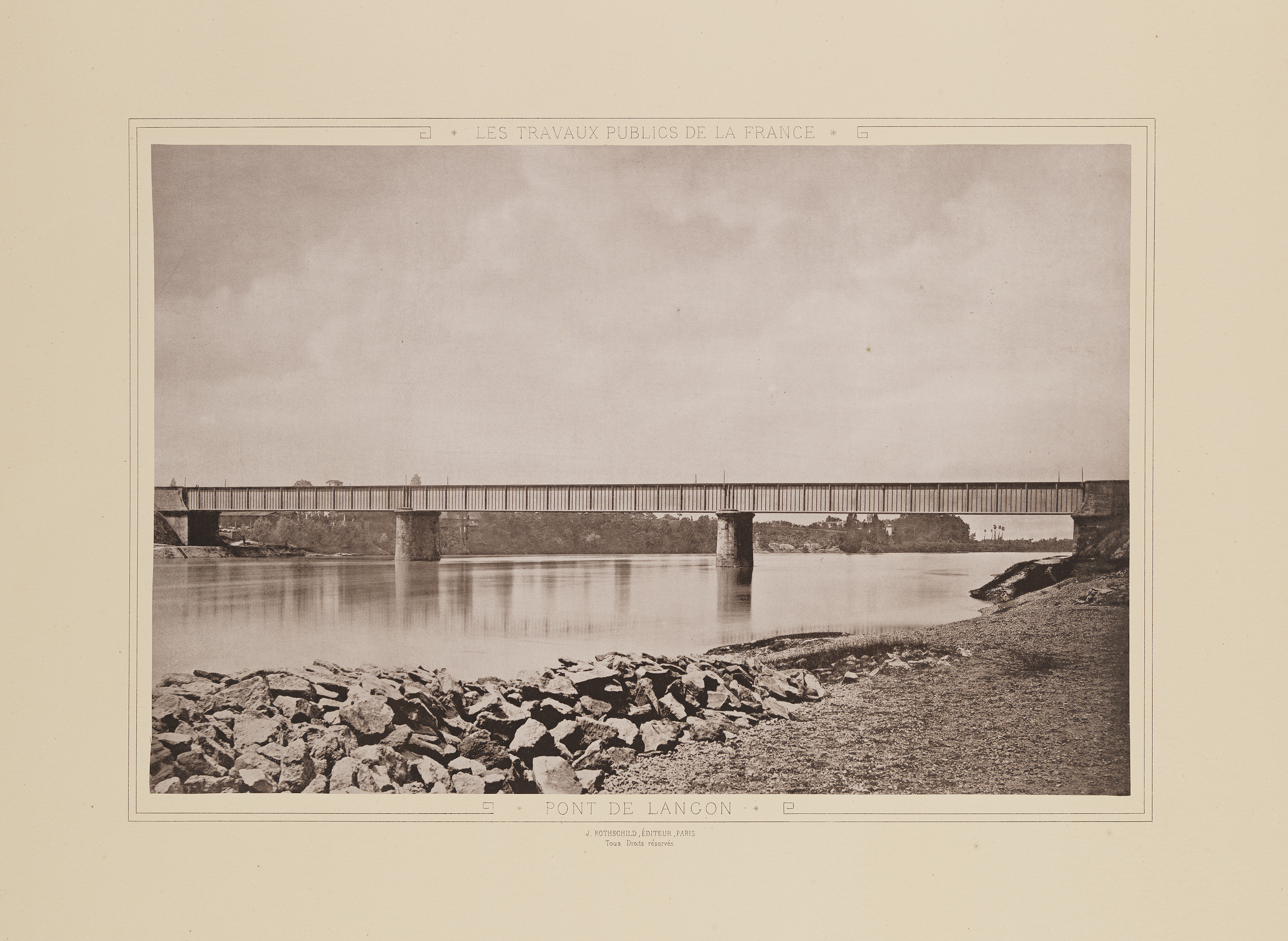 Title: Pont de Langon Alternative Title: Langon Bridge Creator: Unknown Date: 1883 Part Of: Les Travaux Publics de la France, Tome Deuxieme: Chemins de Fer Place: Langon, Gironde, Aquitaine, France Physical Description: 1 photographic print: collotype; 26 x 35 cm on 40 x 56 cm mount File: vault_folio_2_ta71_a4_1883_2_42_opt.jpg Rights: Please cite Southern Methodist University, Central University Libraries, DeGolyer Library when using this image file. A high-quality version of this file may be obtained for a fee by contacting . For more information, see